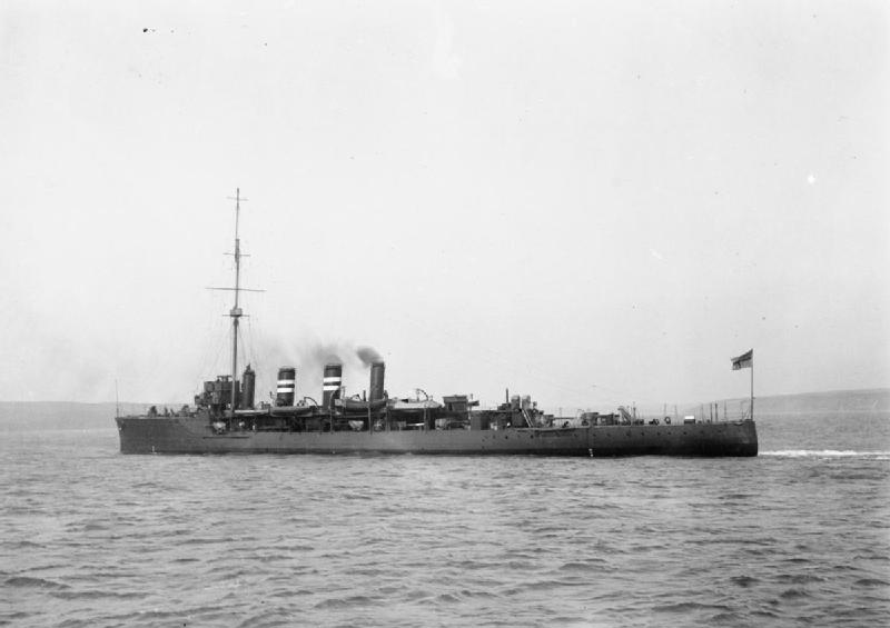 The ACTIVE class scout cruiser, HMS AMPHION. Leader of 3rd Destroyer Flotilla at the outbreak of the First World War, HMS AMPHION became the Royal Navy's first casualty on 6 August 1914 when she ran into a minefield laid by the KONIGIN LUISE, which the 3rd Destroyer Flotilla had just sunk.